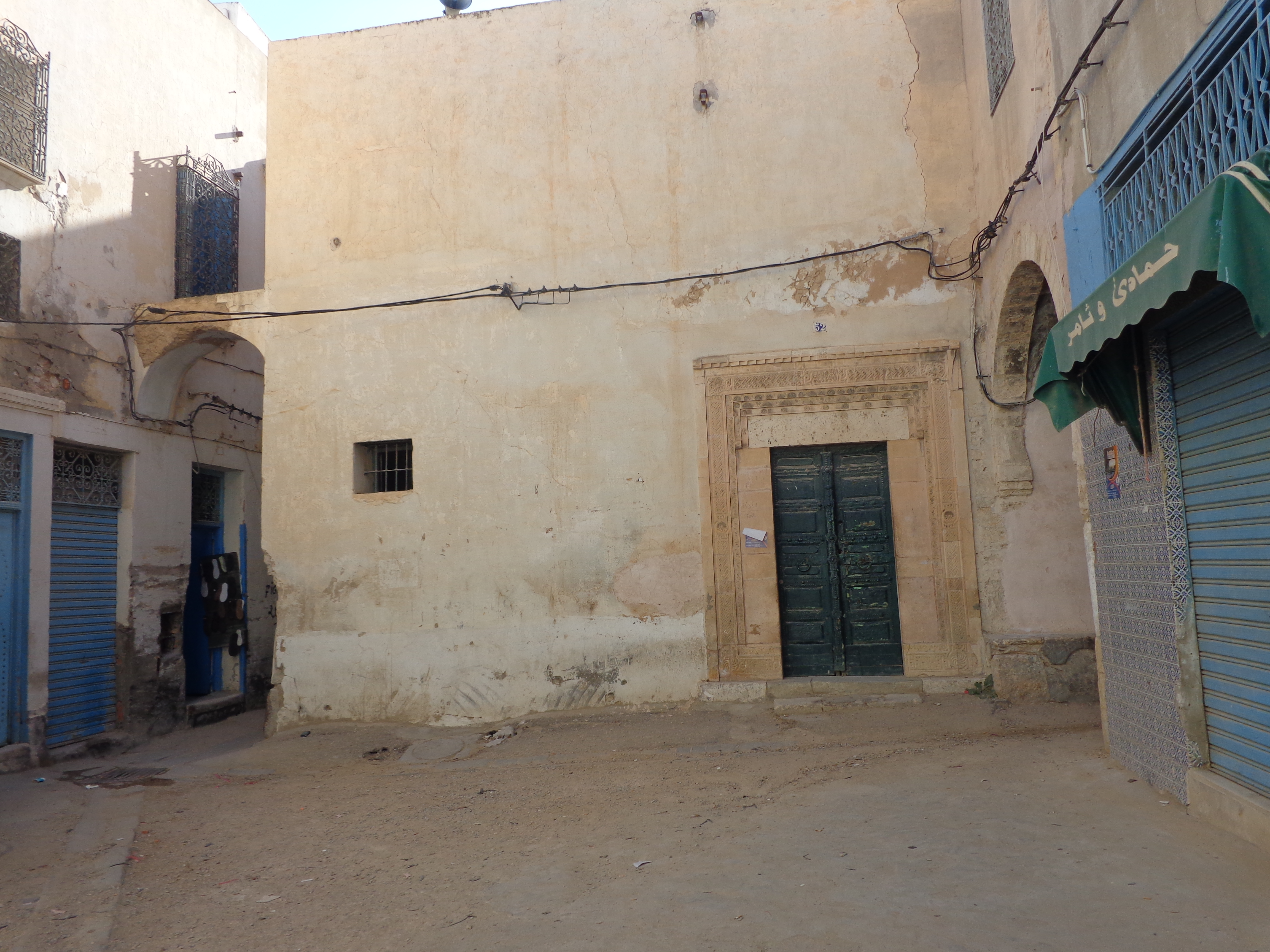 The front of Sidi Ali Ennouri Mosque in the Medina of Sfax